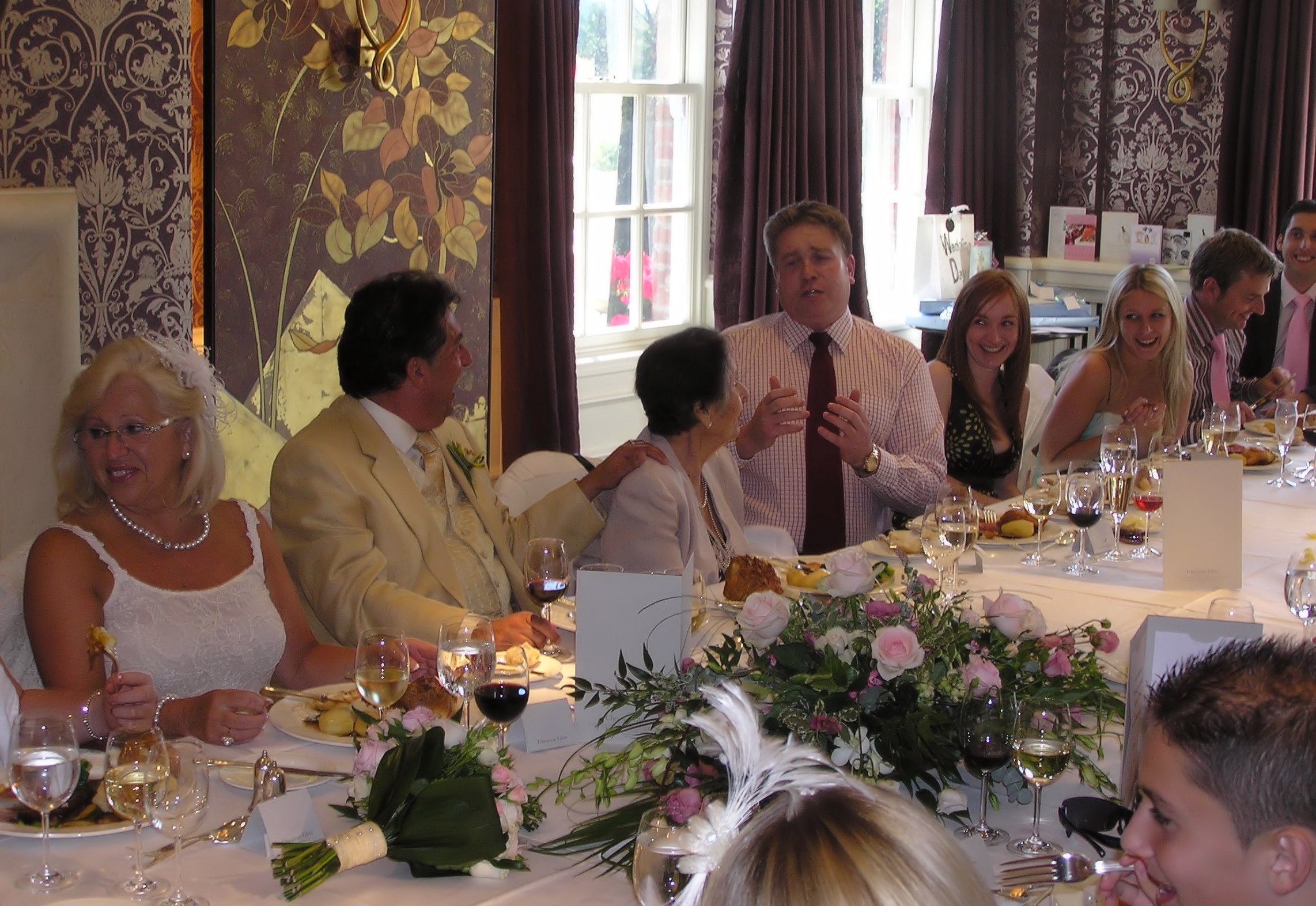 Entertainment at an English wedding breakfast. The organisers have hired two opera singers to sing arias during the meal, to the great entertainment of the guests. This singer is serenading the mother of the groom. The bride and groom are on the left of the picture. Photographed by Adrian Pingstone at Chewton Glen Hotel, Hampshire, England, in September 2007 and placed in the public domain.